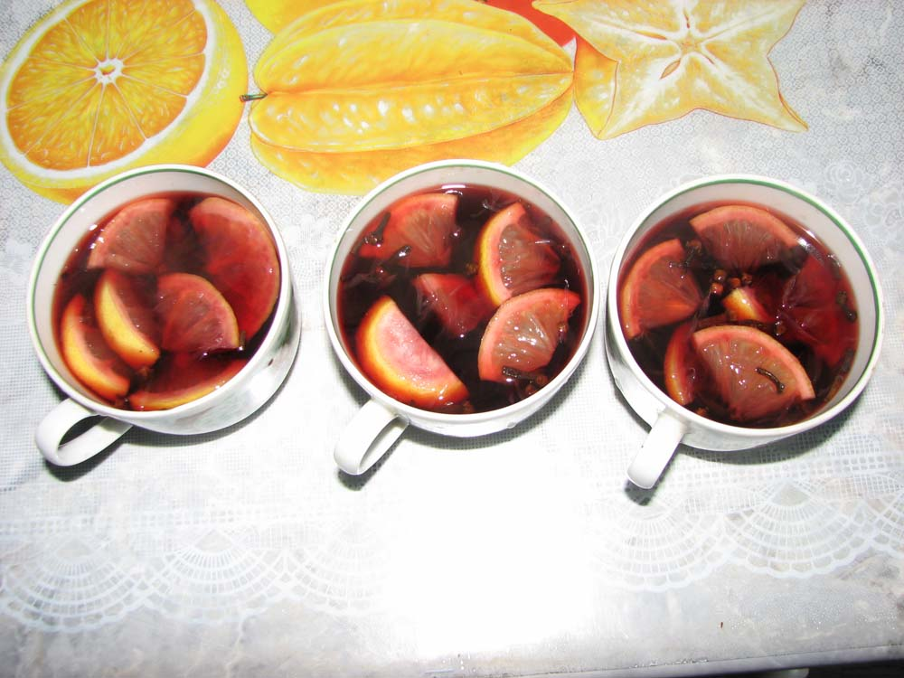 Mulled wine